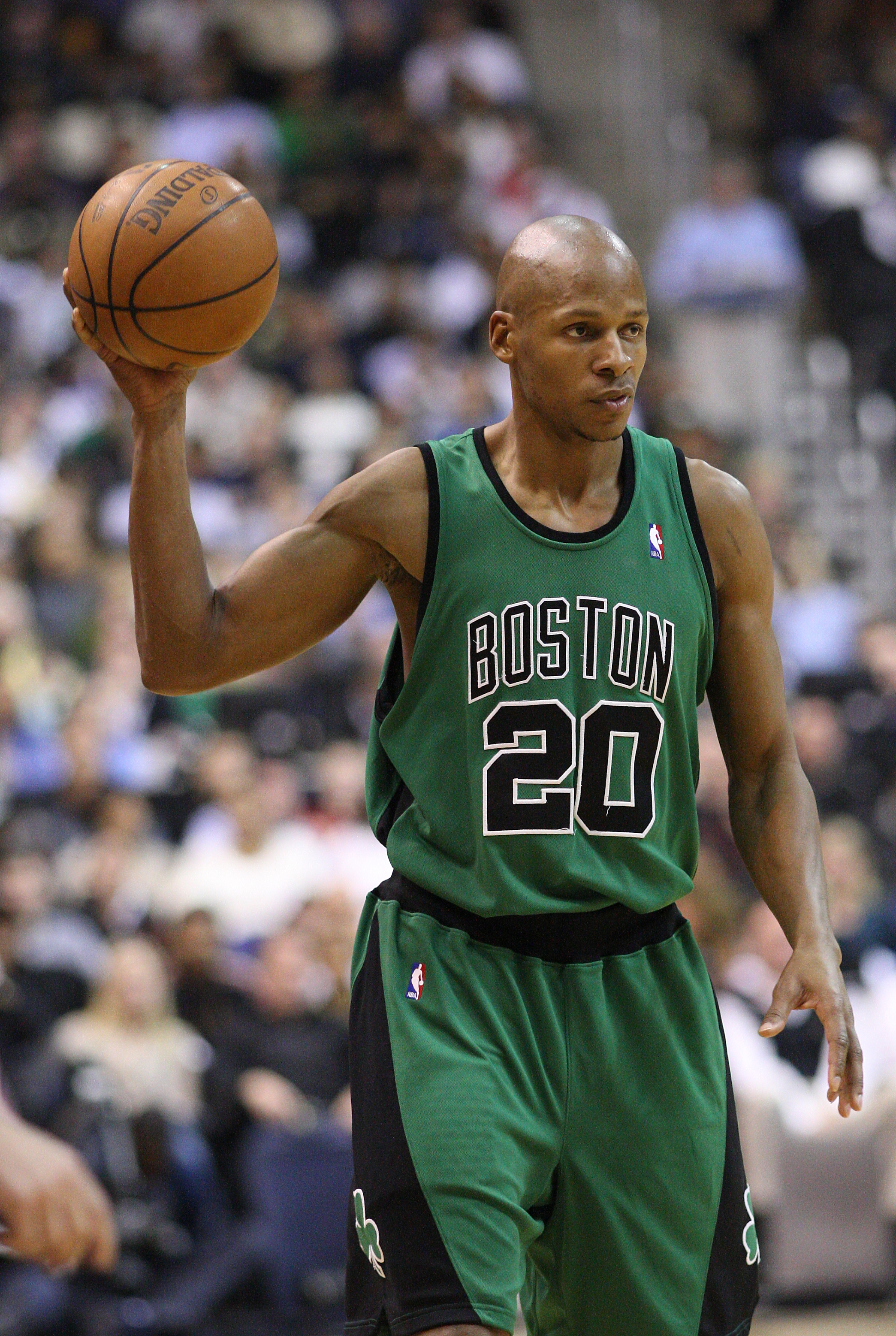 Allen as a member of the Celtics in 2008.